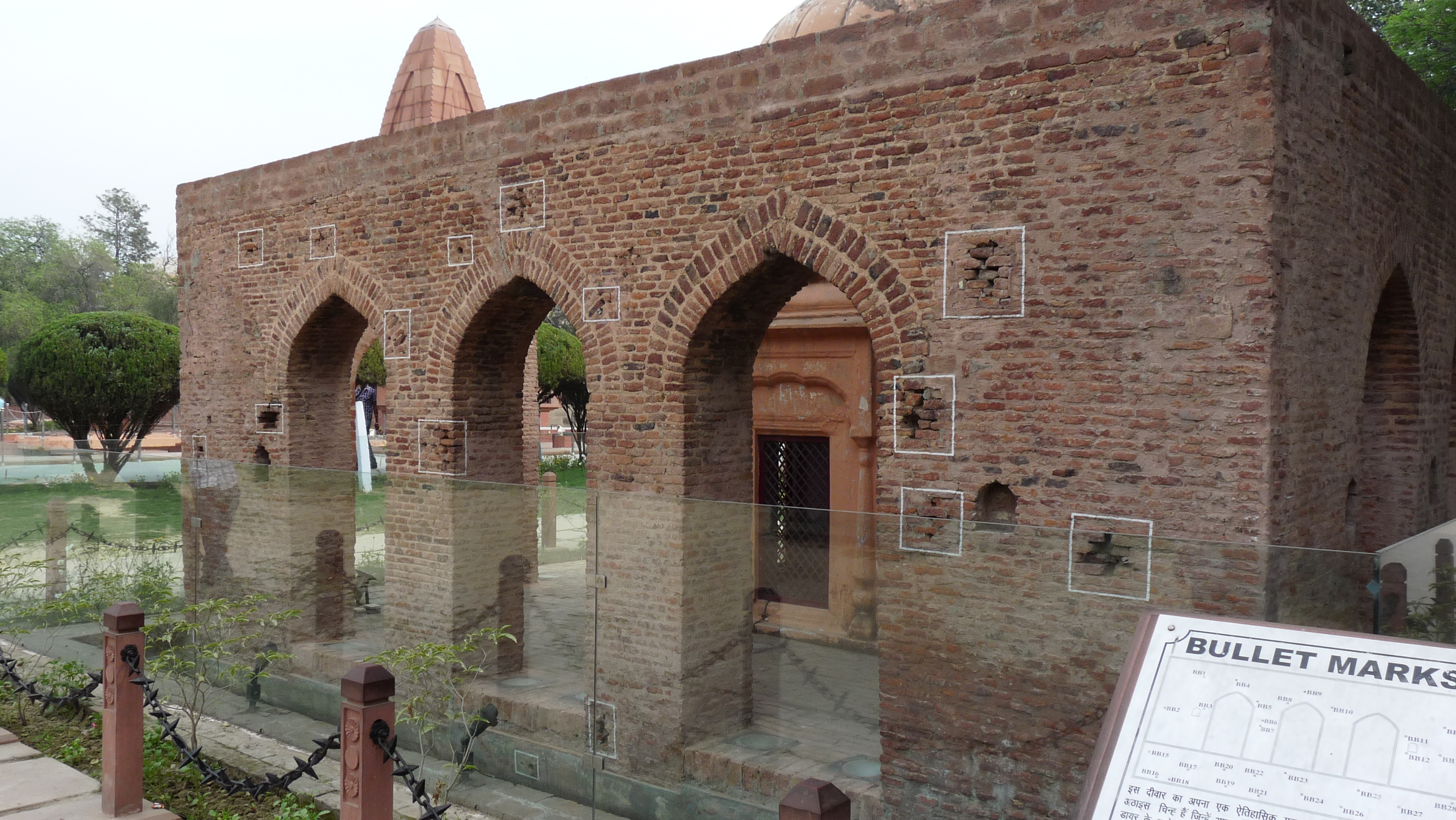 The signs of bullet marks at Jallianwala Bagh. 1650 rounds were fired on 13th April 1919 on 20,000 innocent people that gathered here for a peaceful demonstration.